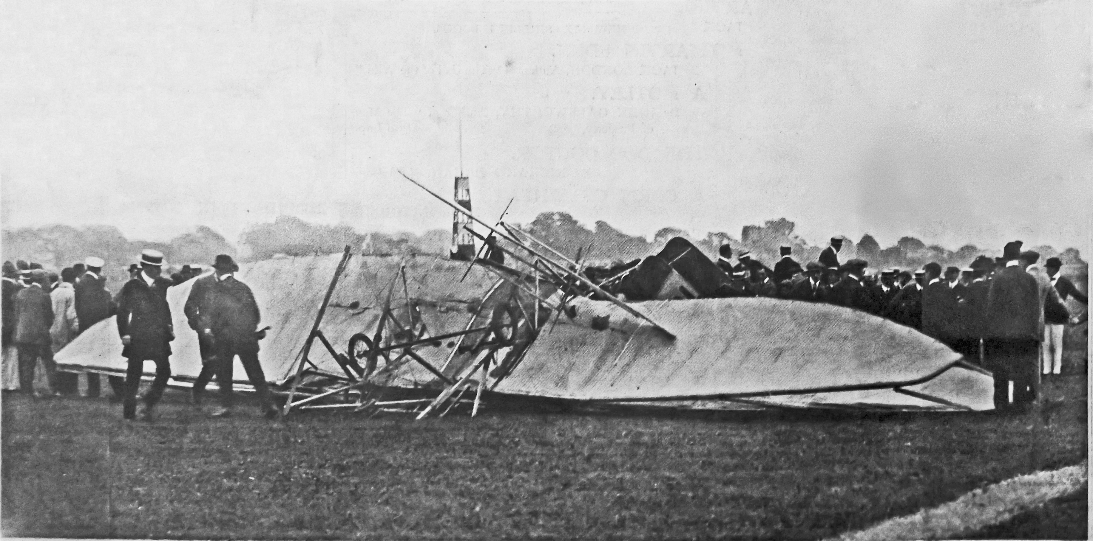 Photograph on the front page of The Illustrated London News, 16 July 1910, showing the wreckage of the plane crash which killed Charles Stewart Rolls on the 12 July 1910, at an airfield at Southbourne near Bournemouth, England. The newspaper states that this was "the first fatal accident of an aviator in this country."